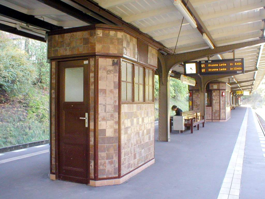 the U-Bahn station Podbielskiallee, line U3 in Berlin, Germany